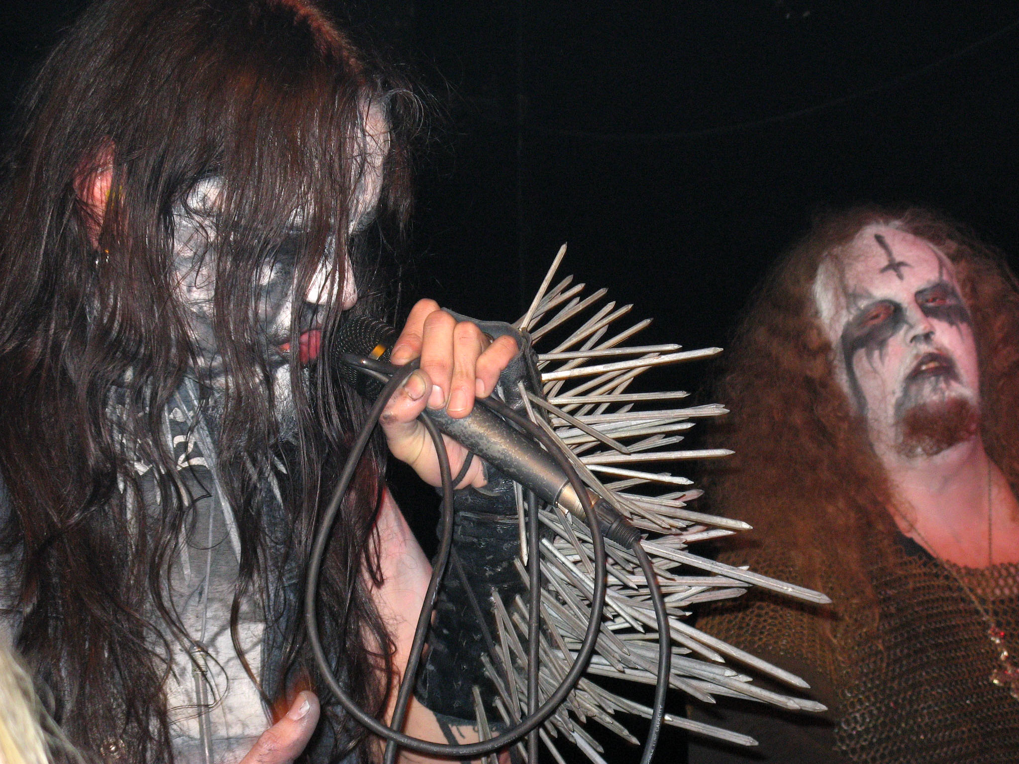 The Finnish Black Metal band Horna. The singer is Corvus.